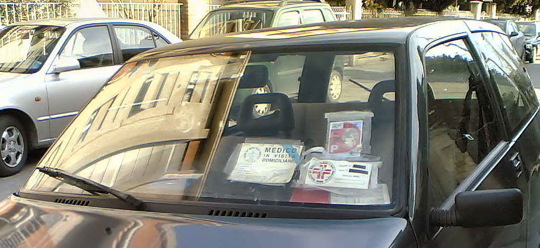 Windshield: permits (mis-)placed on the driver side.